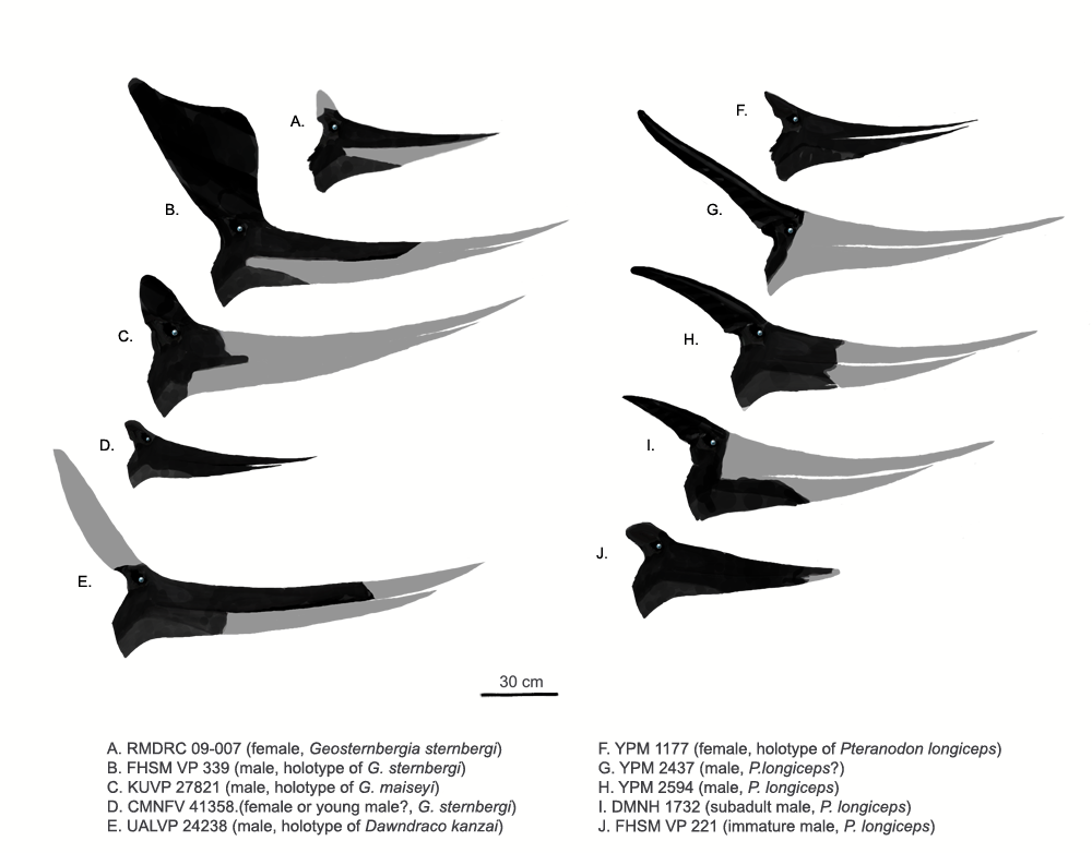 Restoration of various pterosaur specimens assigned to the genus Pteranodon, illustrating variation in cranial anatomy. Unpreserved portions of skulls and jaws depicted in gray. Classification/identification after Kellner, 2010. Sources: Bennett, S.C. (1992). "Sexual dimorphism of Pteranodon and other pterosaurs, with comments on cranial crests". Journal of Vertebrate Paleontology 12 (4): 422–434. Bennett, S.C. (1994). "Taxonomy and systematics of the Late Cretaceous pterosaur Pteranodon (Pterosauria, Pterodactyloida)". Occasional Papers of the Natural History Museum, University of Kansas 169: 1–70. Kellner, A.W.A. (2010). "Comments on the Pteranodontidae (Pterosauria, Pterodactyloidea) with the description of two new species". Anais da Academia Brasileira de Ciências 82 (4): 1063-1084.